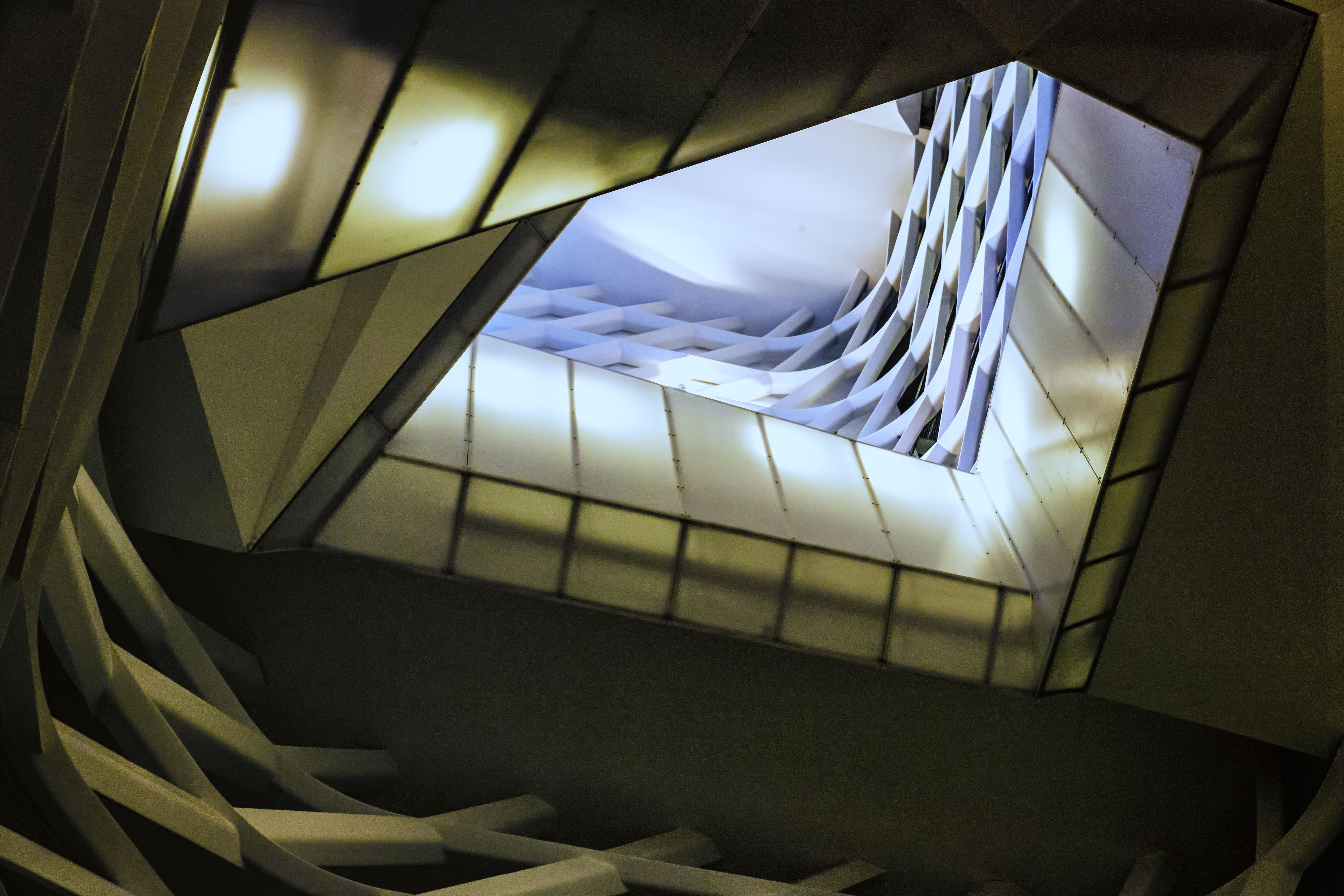 Cooper Union New Academic Building (41 Cooper Square) Interior Site: Cooper Union New Academic Building